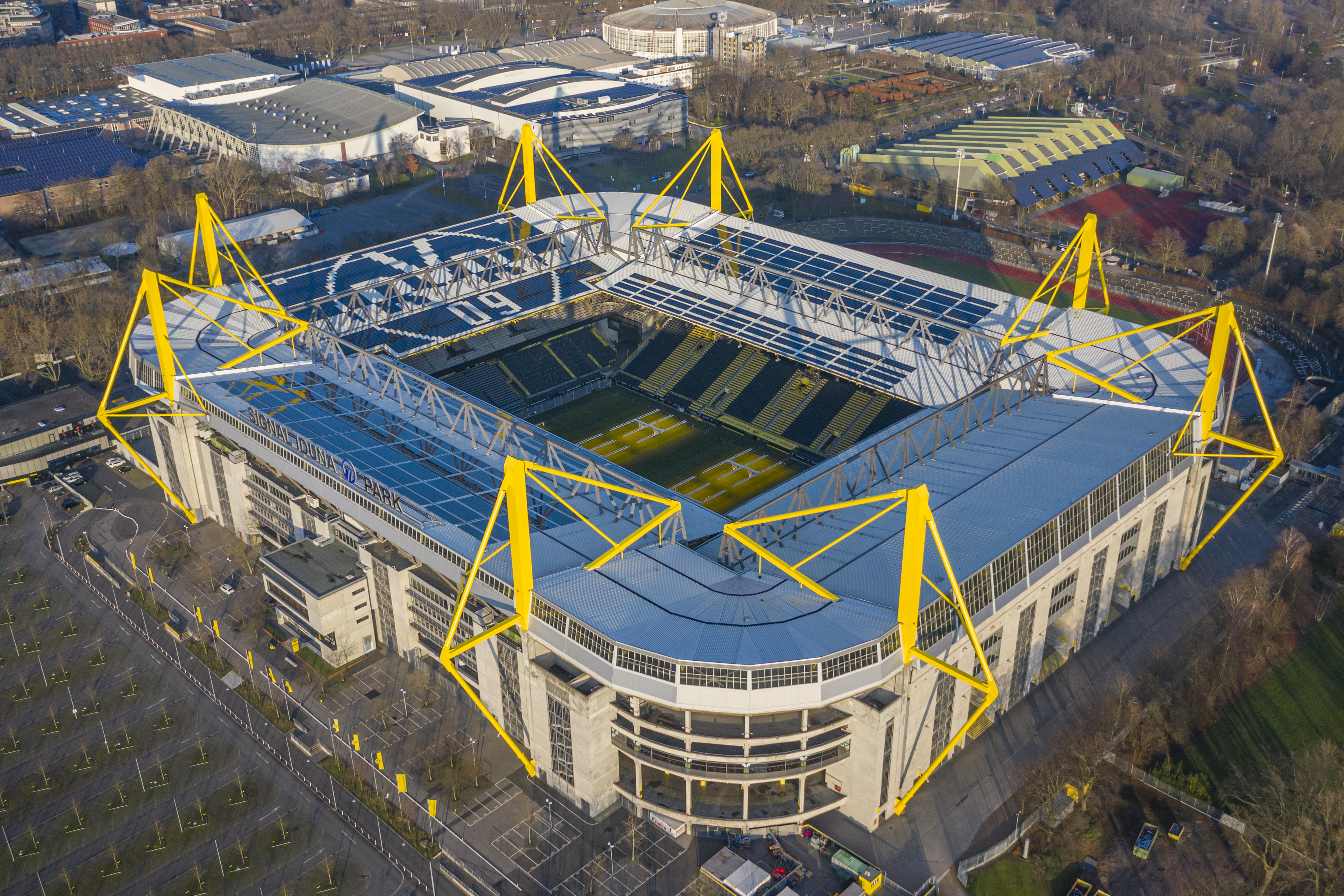 Westfalenstadion (or Signal-Iduna-Park) is a football stadium in Dortmund, North Rhine-Westphalia, Germany, which is the home of Borussia Dortmund.